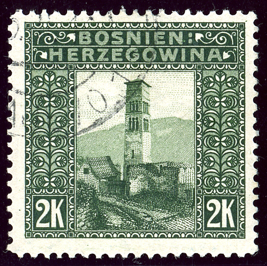 Stamp of Bosnia and Herzegovina, 2 Kronen, issue 1906. Vue of the St Lucas tower of Jajce.